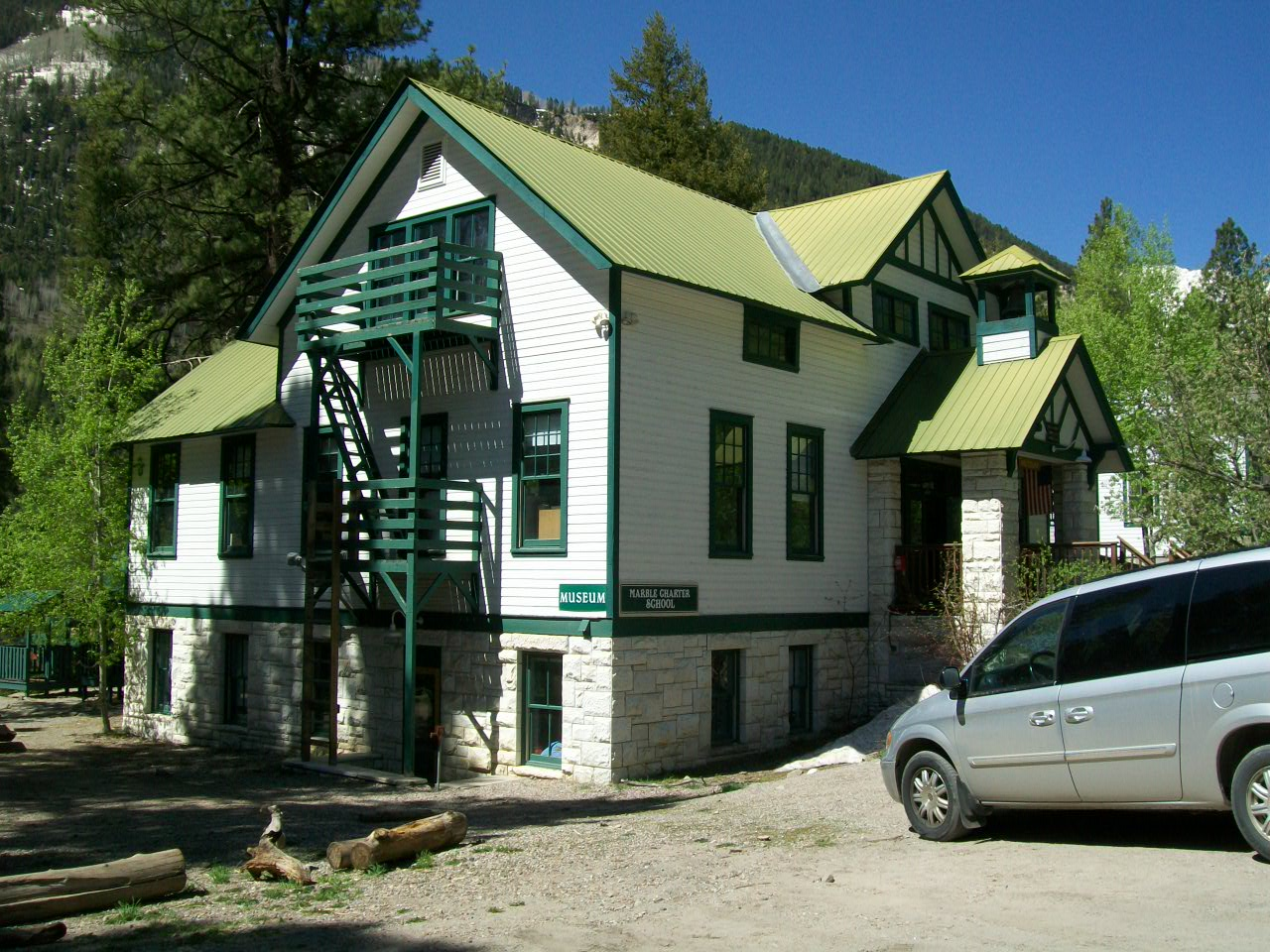 The 1910 built high school in Marble, Colorado. The stone at the bottom of the building and the two entry columns on the right are made of Yule marble with an ashlar texture surface